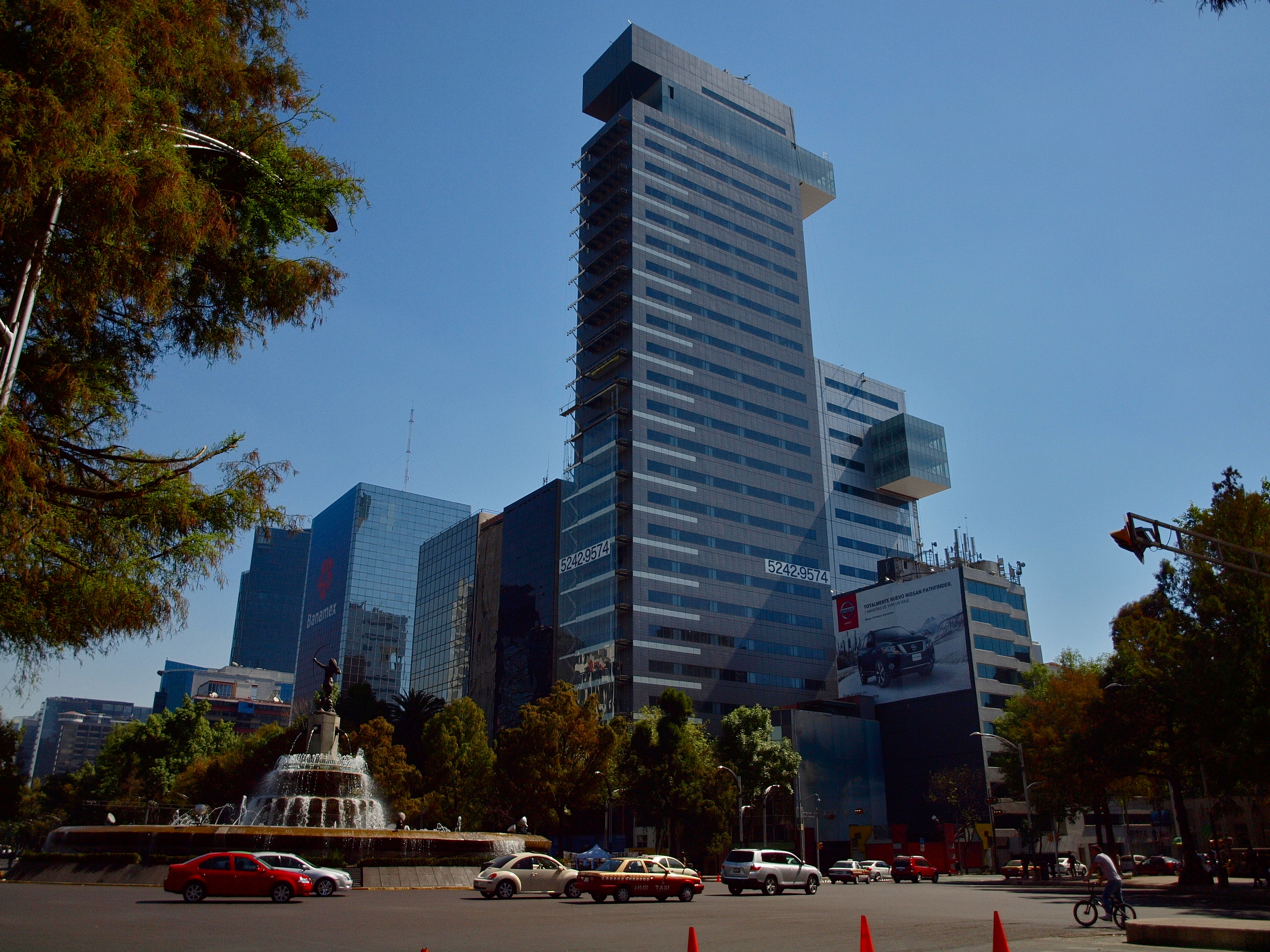 Corporativo Reforma Diana